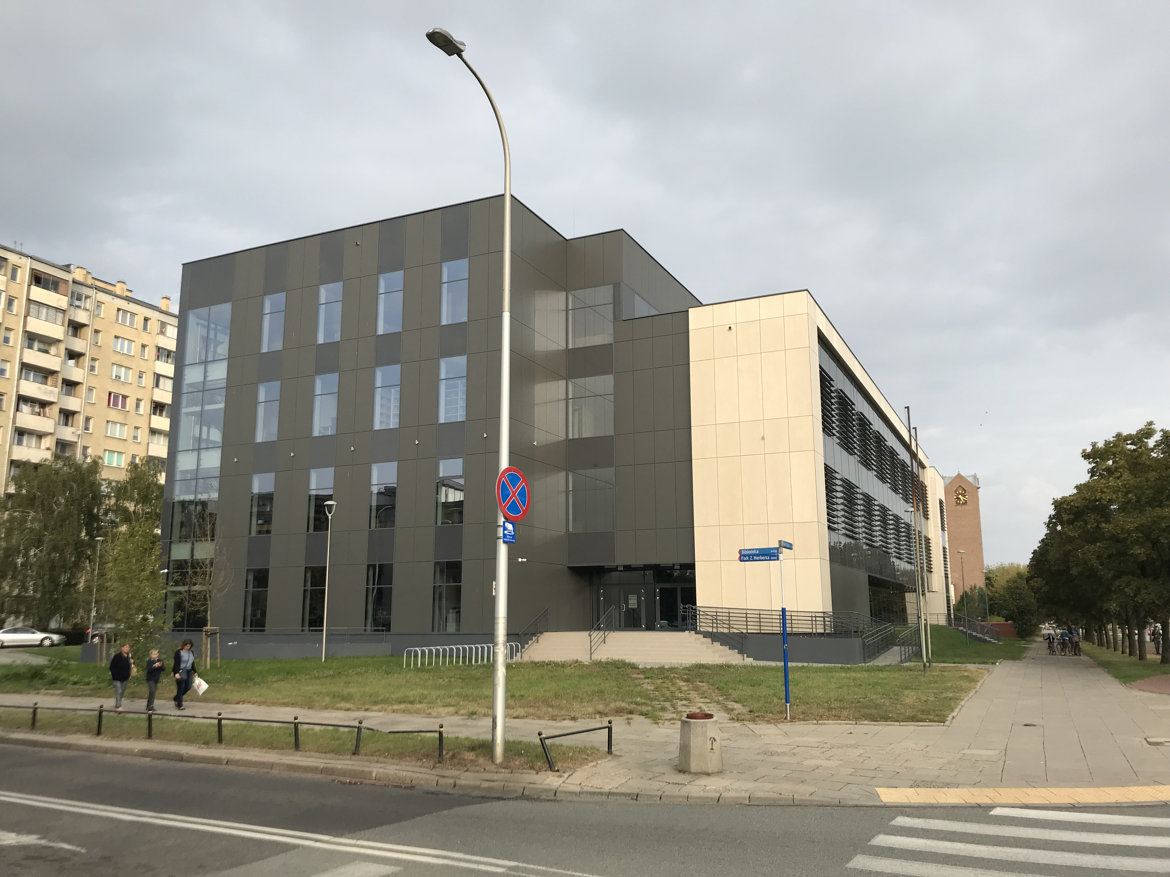 Building of Christian Theological Academy in Warsaw in September 2018